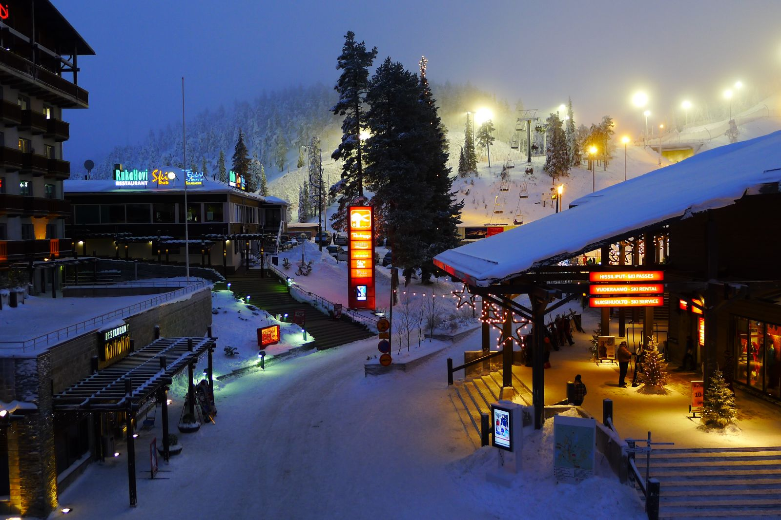 View from the new lookout tower in the centre of Ruka, Finland